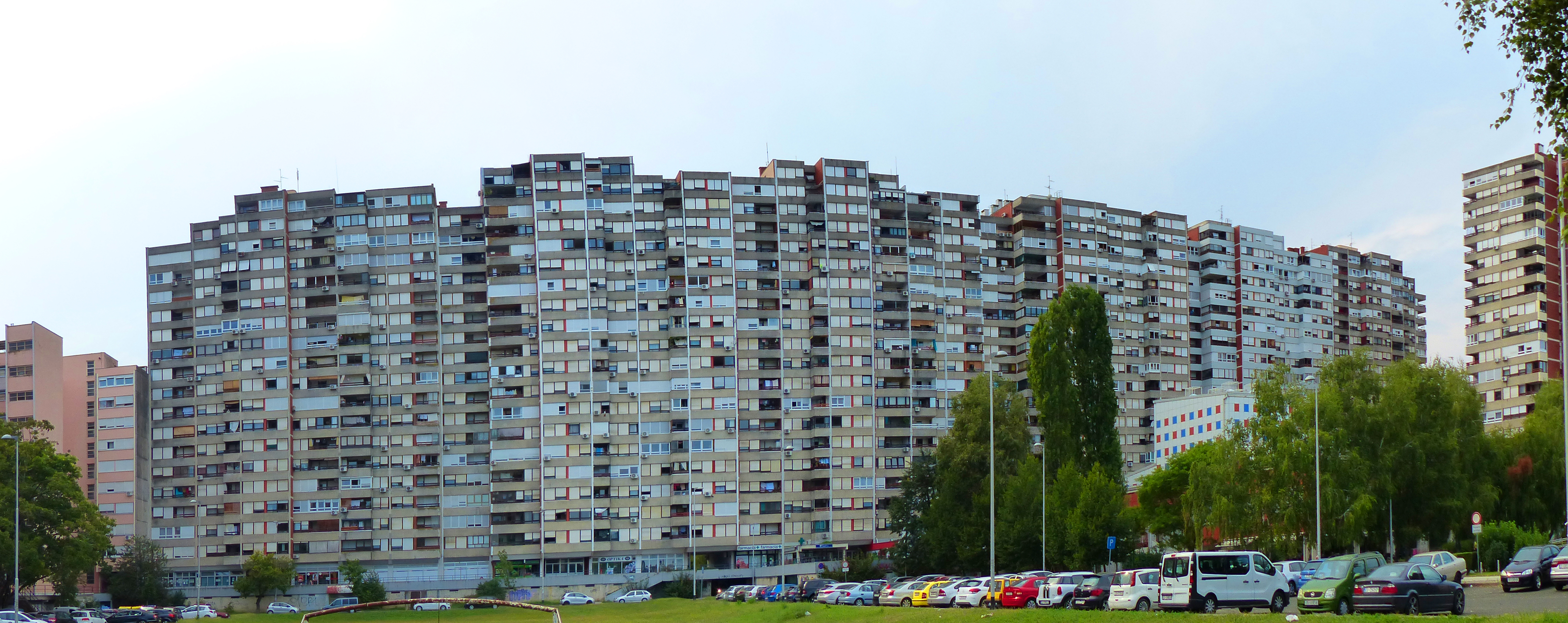 There are 1.169 apartments in the building, home to about 5,000 people